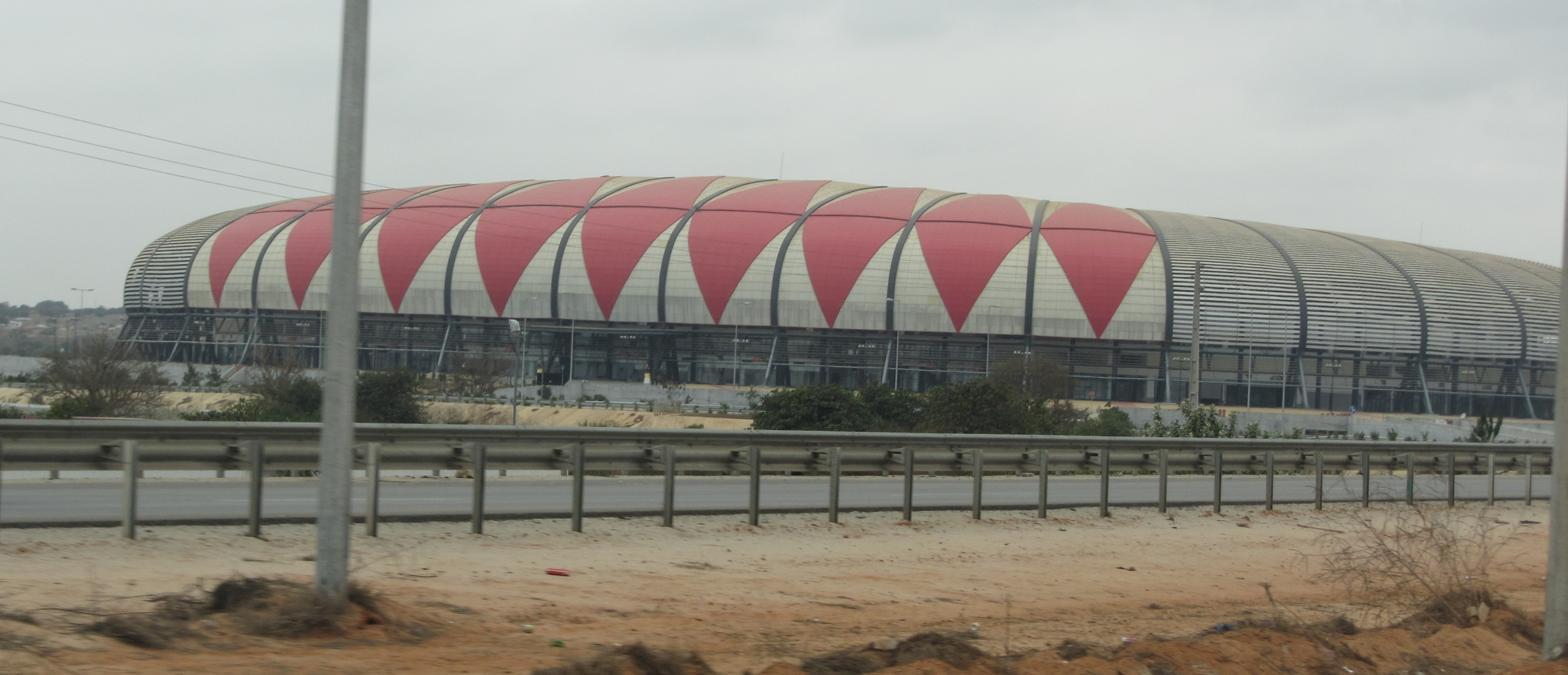 Estadio 11 de Novembro (11 November Stadium) in Luanda, Angola. Seen from the East, from the express way